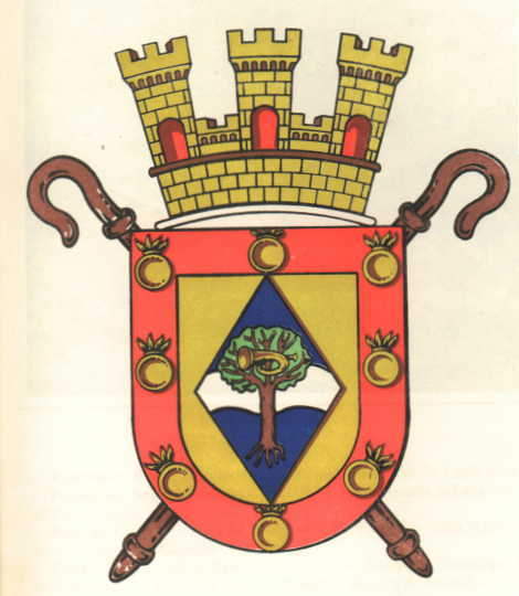 Coat of arms of Capitán Bermudez, a city in Santa Fe Province.